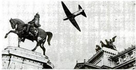 Rare picture of the passage on the Piazza Venezia Campini Caproni CC2